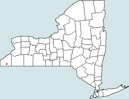 Map of New York, with dot on location of city of Jamestown